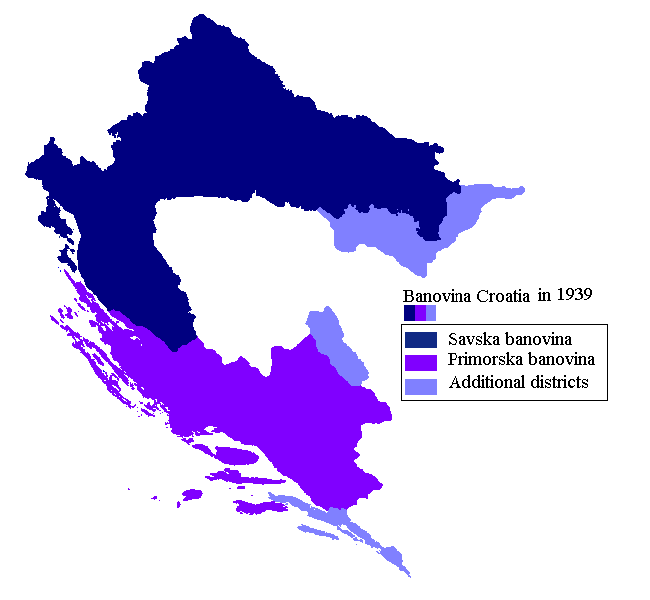 Creation of Banovina Croatia